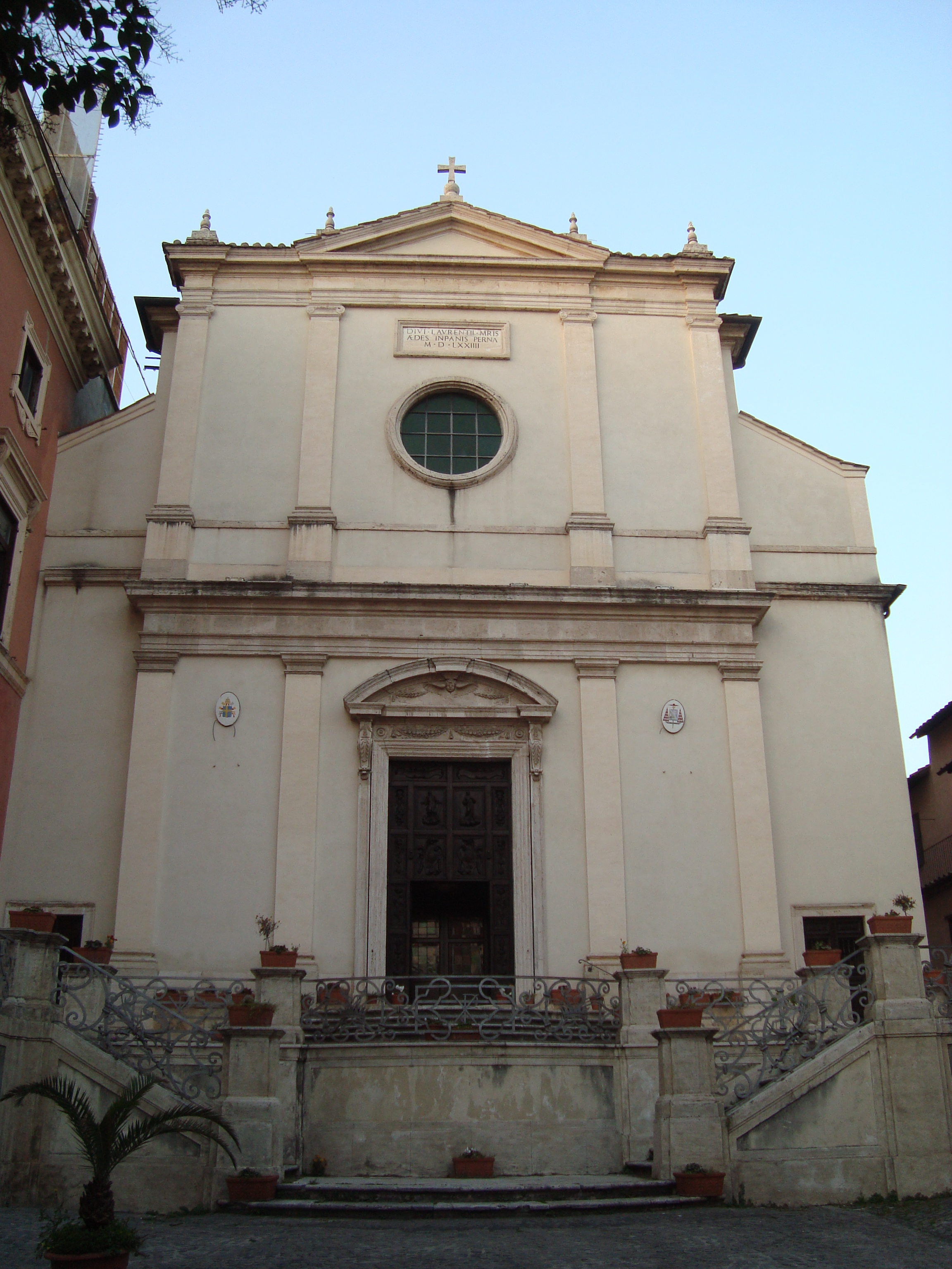 General view of the church San Lorenzo in Panisperna in rione Monti in Rome